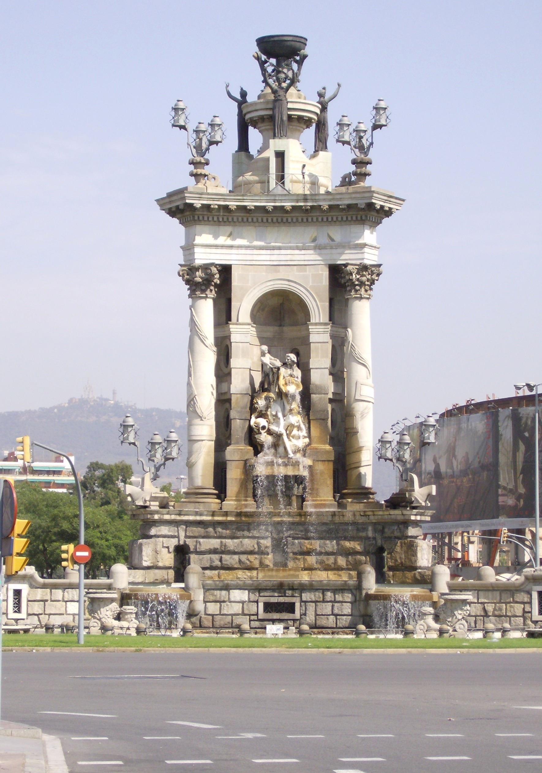 The statue in the middle of the roundabout on the square Plaça d'Espanya (Barcelona).